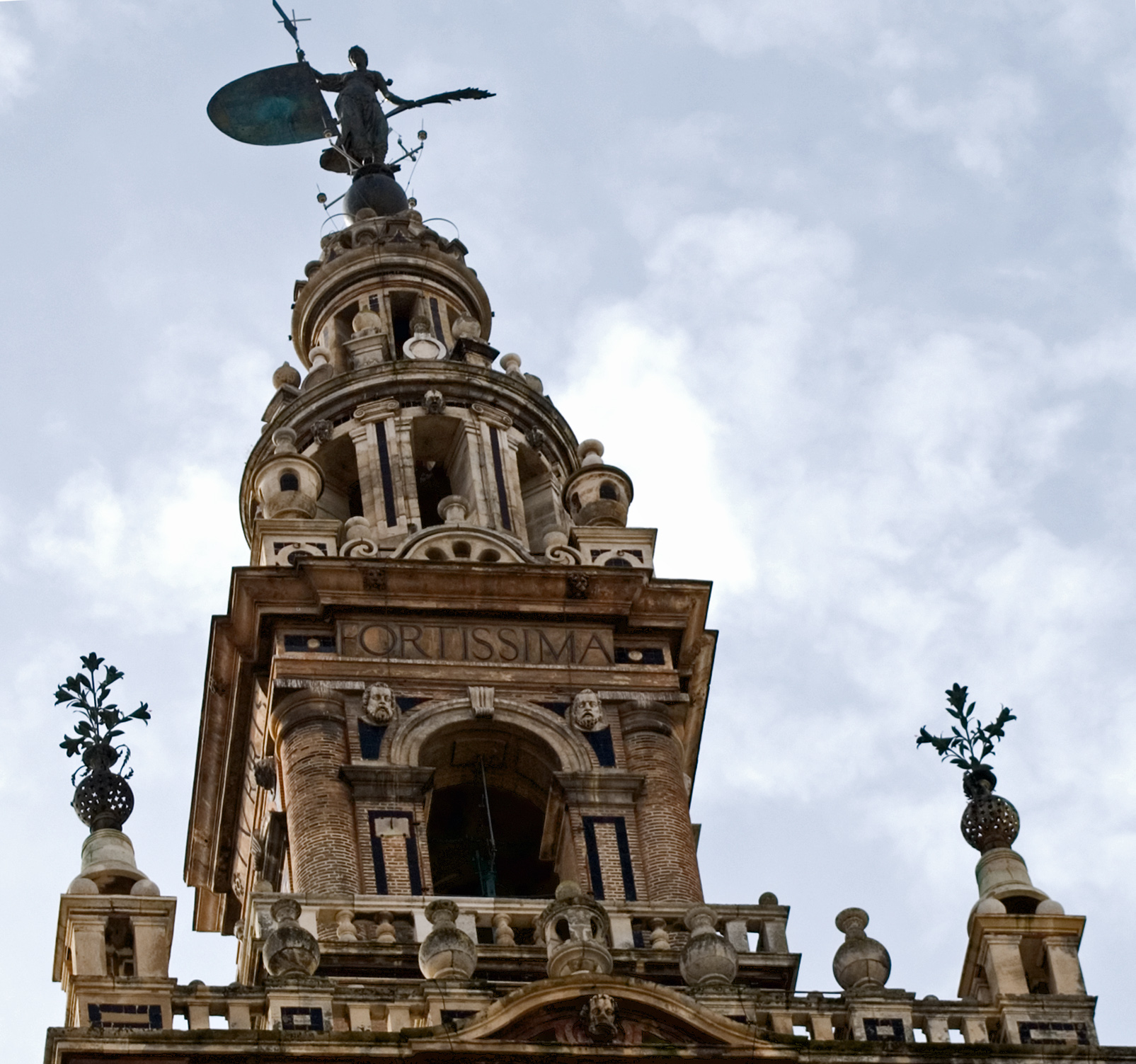 Detail of Giralda of Seville